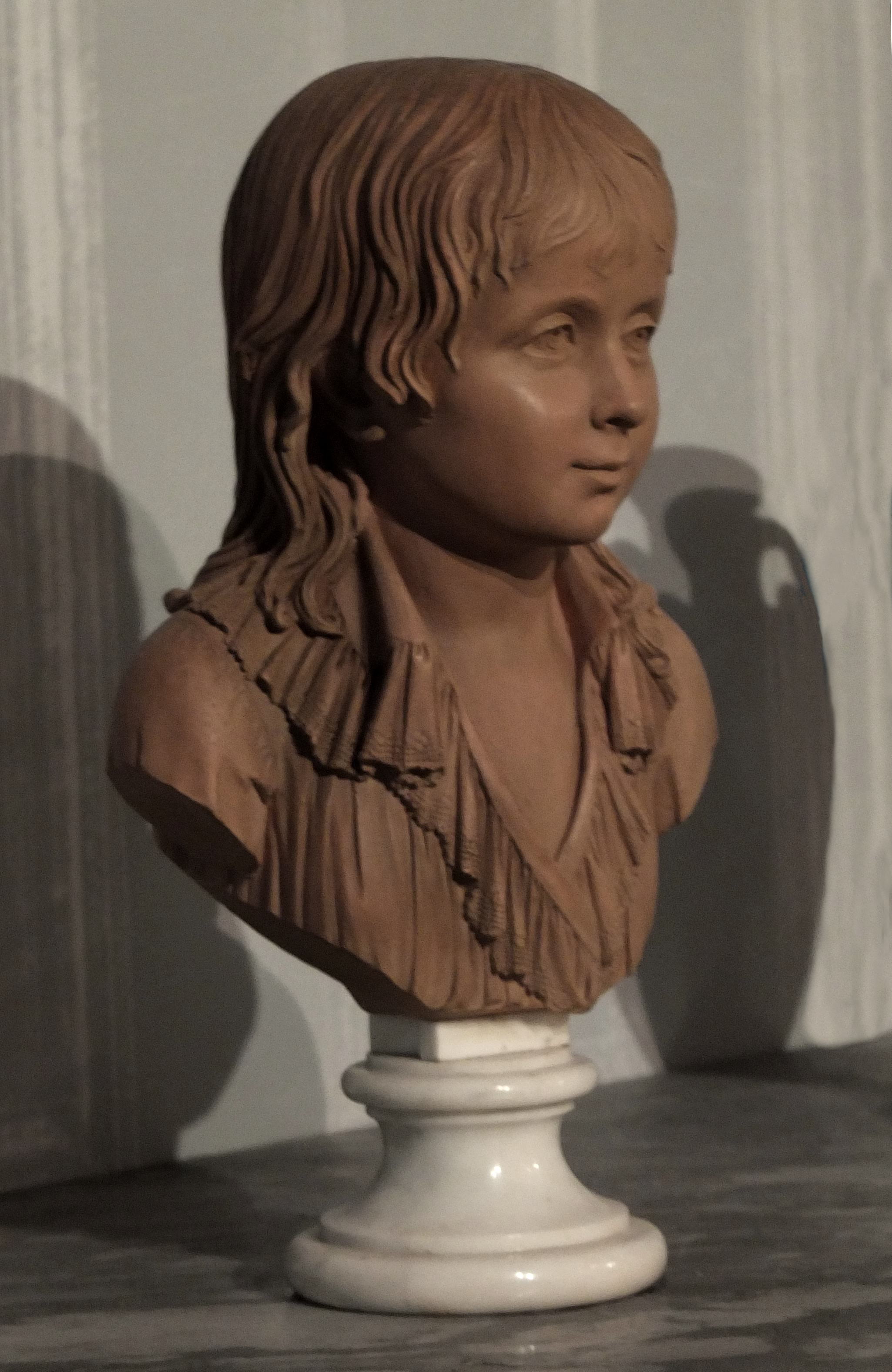 Bust of Louis-Charles of France, Duke of Normandy, then Dauphin, then Louis XVII (1785-1795)